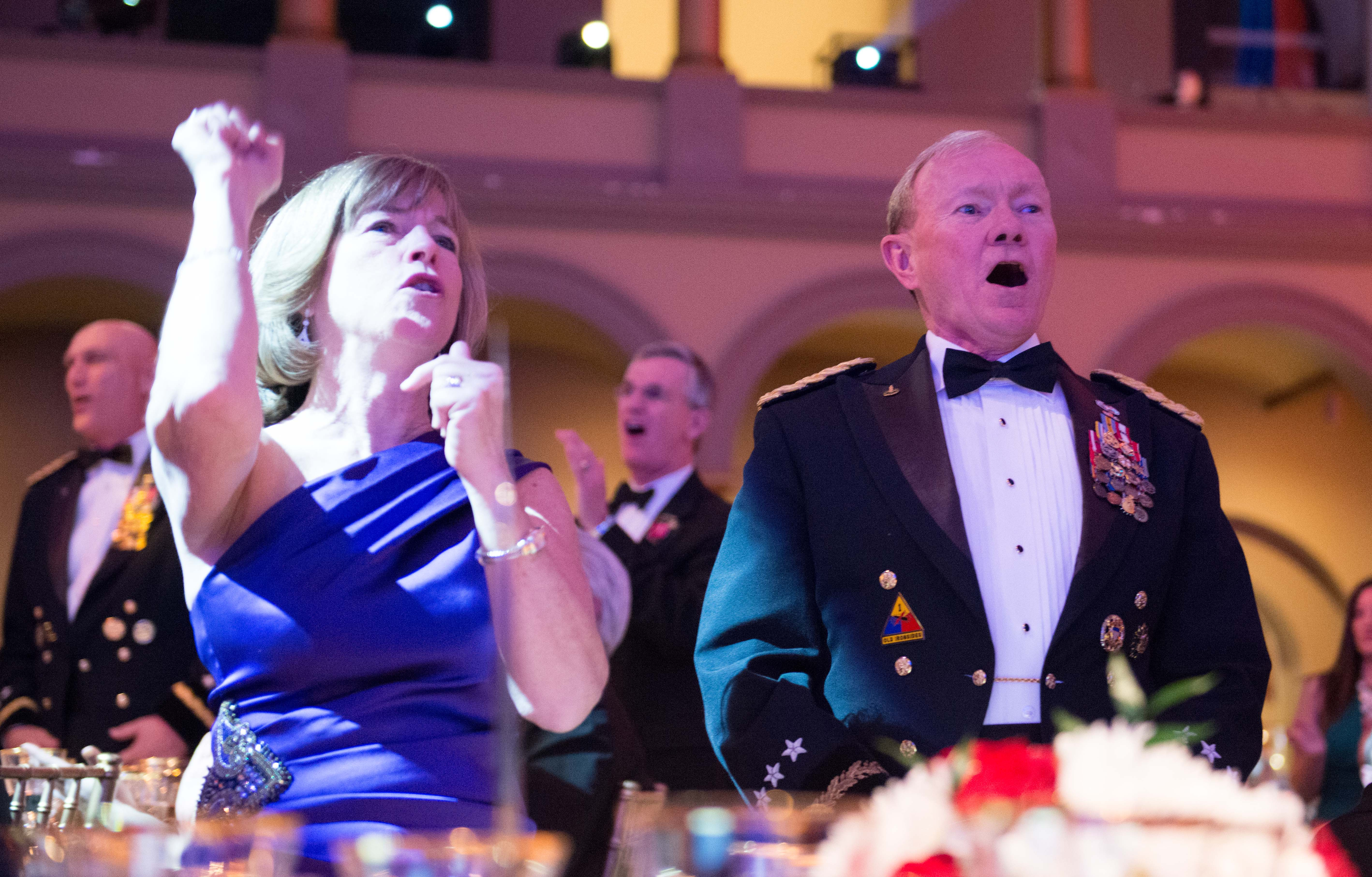 Chairman of the Joint Chiefs of Staff U.S. Army Gen. Martin E. Dempsey, right, and his wife, Deanie, sing March 27, 2014, during the 2014 Tragedy Assistance Program for Survivors (TAPS) Honor Guard Gala at the National Building Museum in Washington, D.C. TAPS was a 24-hour tragedy assistance resource for anyone who lost a military loved one.